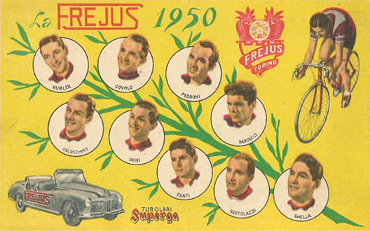 Frejus cycling team 1950 poster